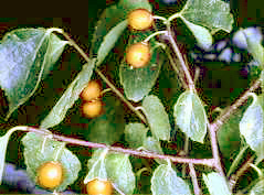 Sicilian botanical endemisms Celtis aetnensis